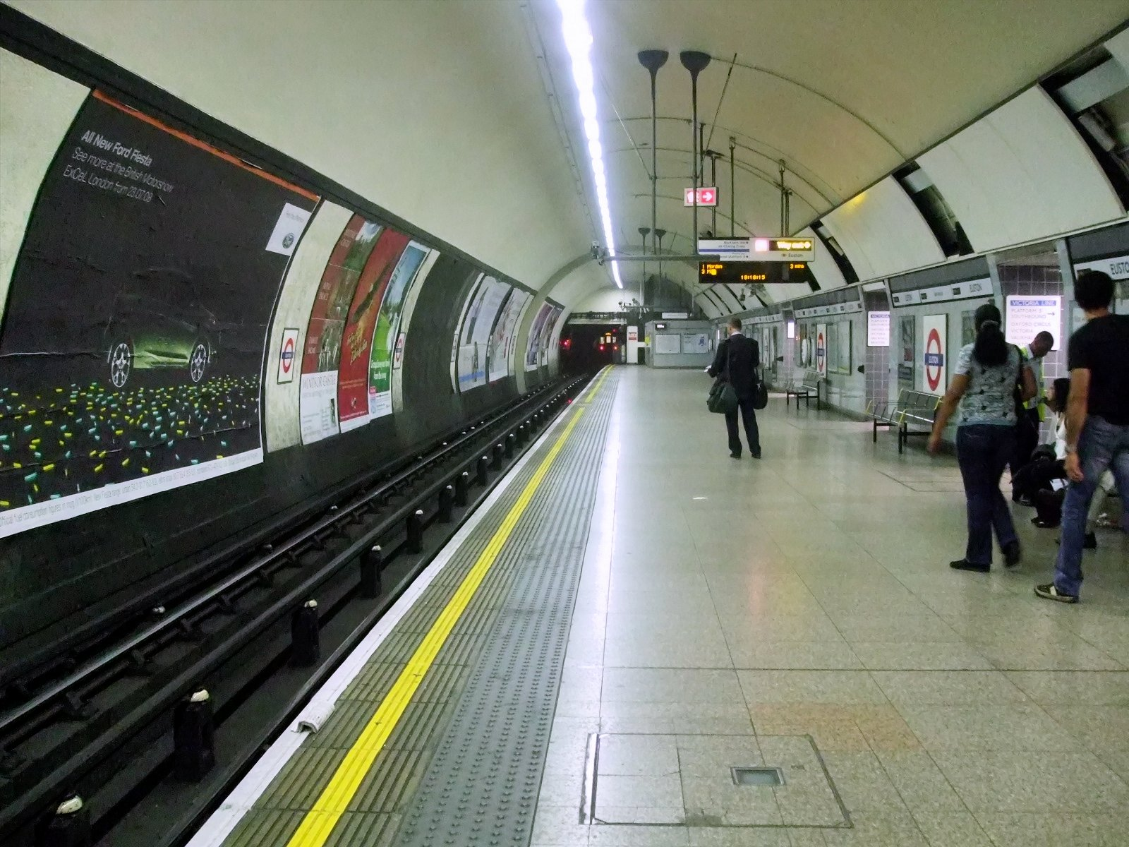 Euston tube station southbound Northern line Bank branch platform looking south